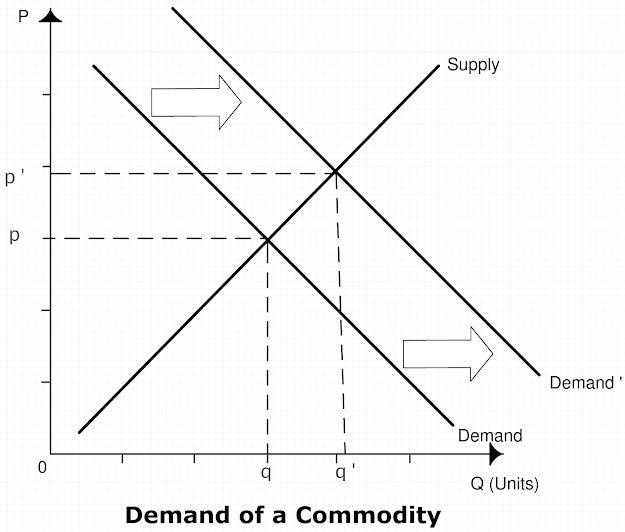 Effects of demand shifting out on quantity on price